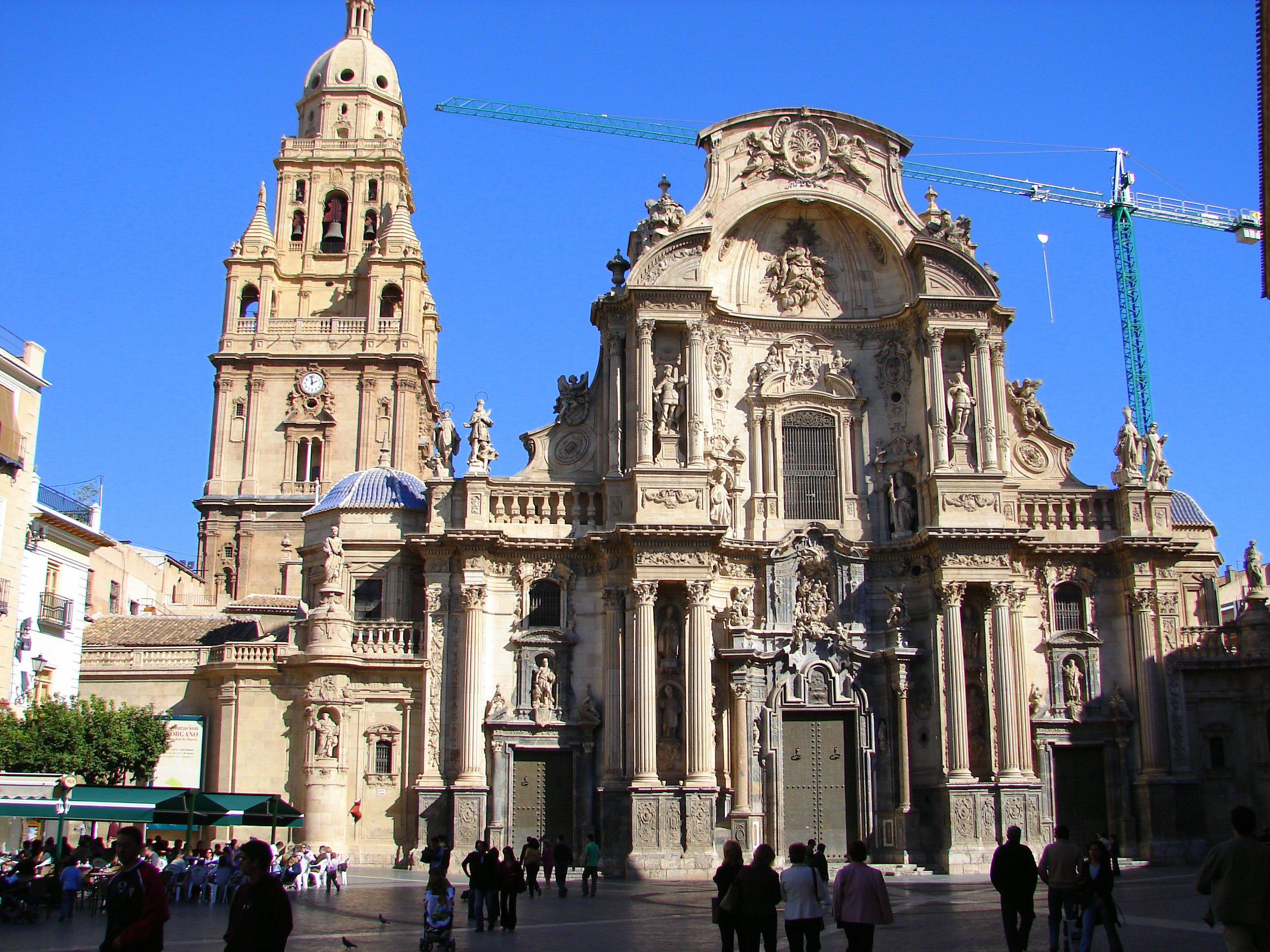 Front of the Catedral of Murcia. Photo: Ole Kristian Sandvik.